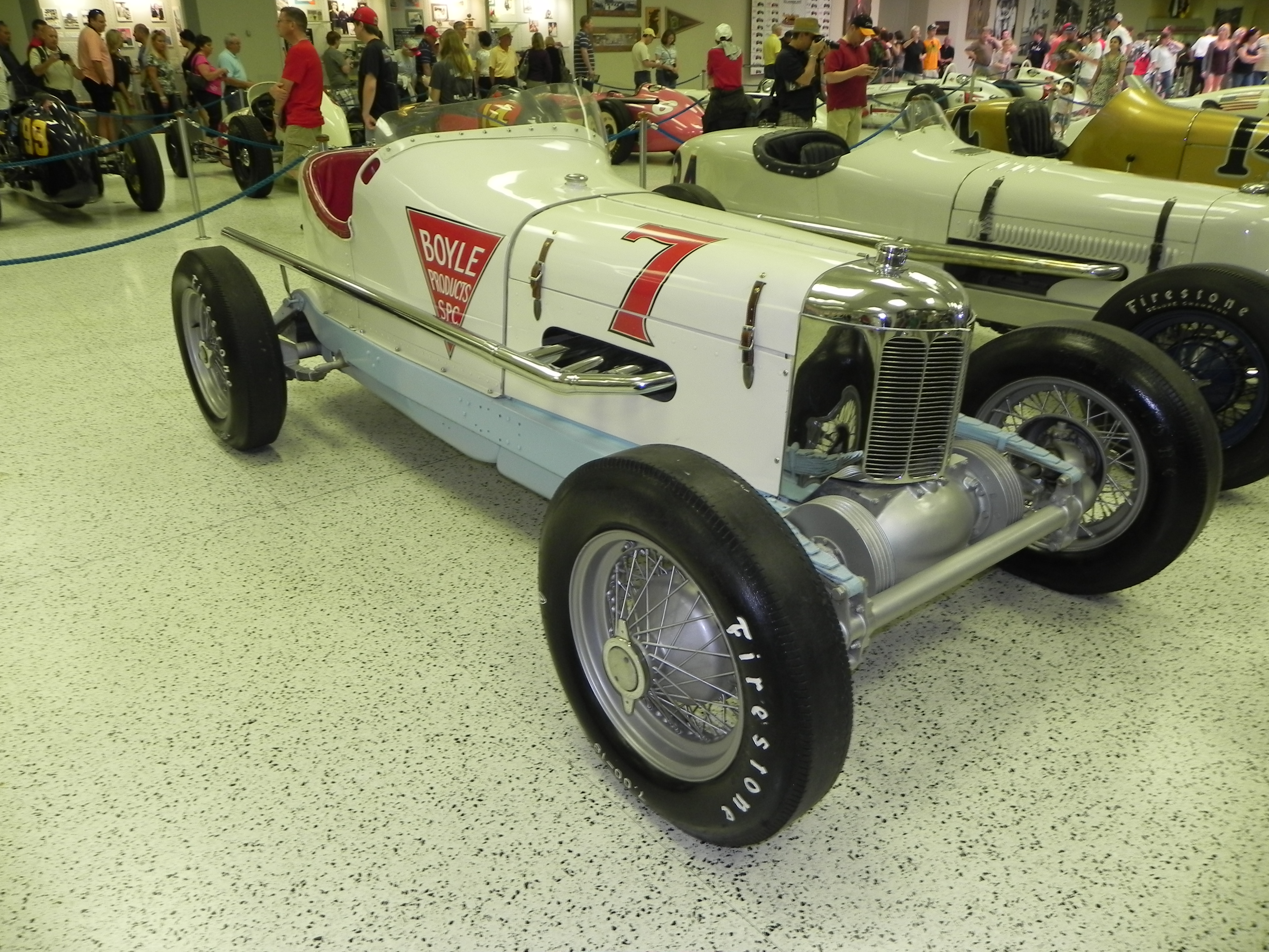 Image of the winning car of the 1934 Indianapolis 500 (Bill Cummings). Photo was taken at the Indianapolis Motor Speedway Hall of Fame Museum, during the month of May 2011, at the 100th Anniversary "Ultimate Indianapolis 500 Winning Car Collection."